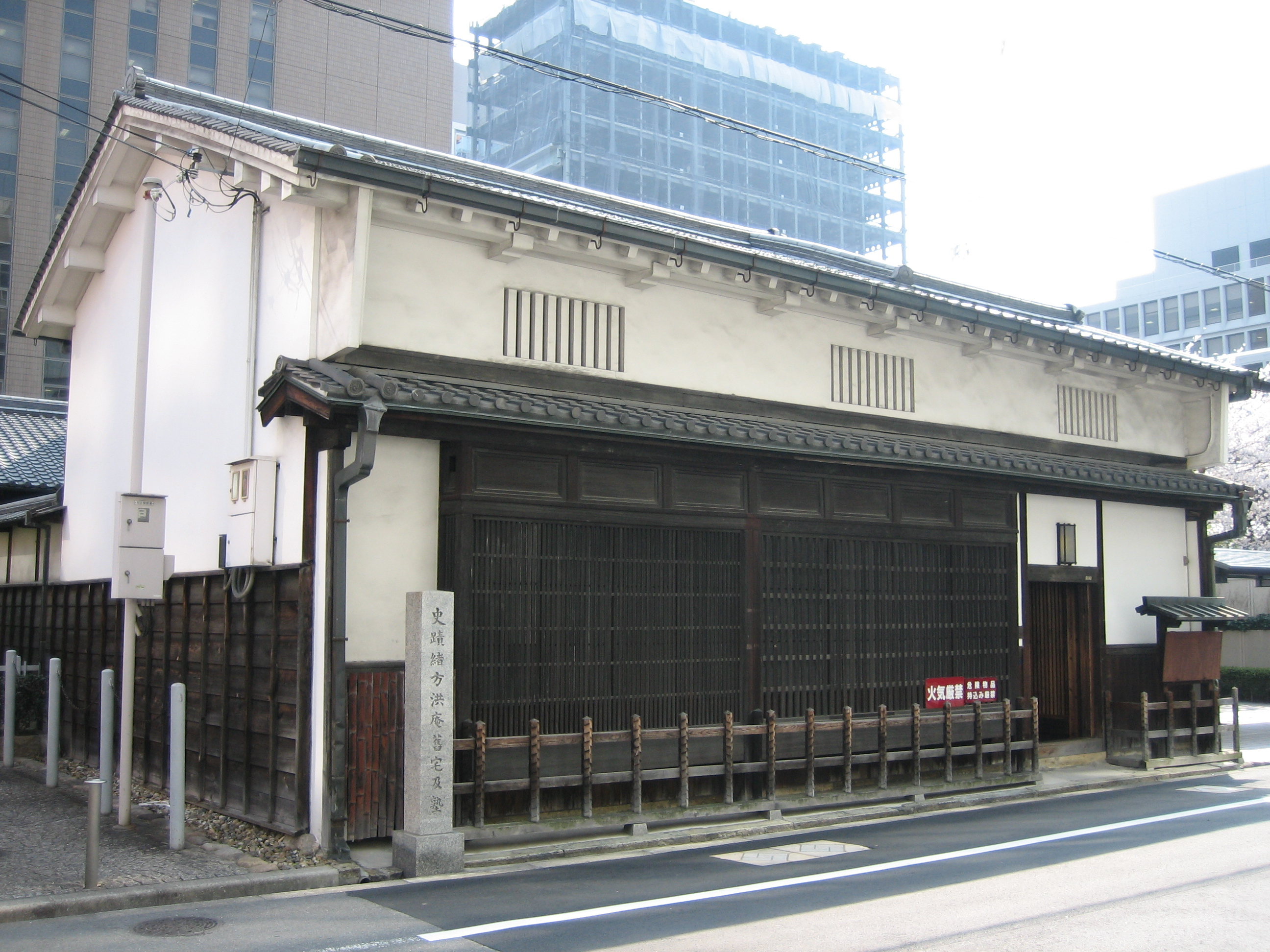 Tekijuku, a school established in the Edo Period (19th century) in Osaka, Japan (Japan's national important cultural property)